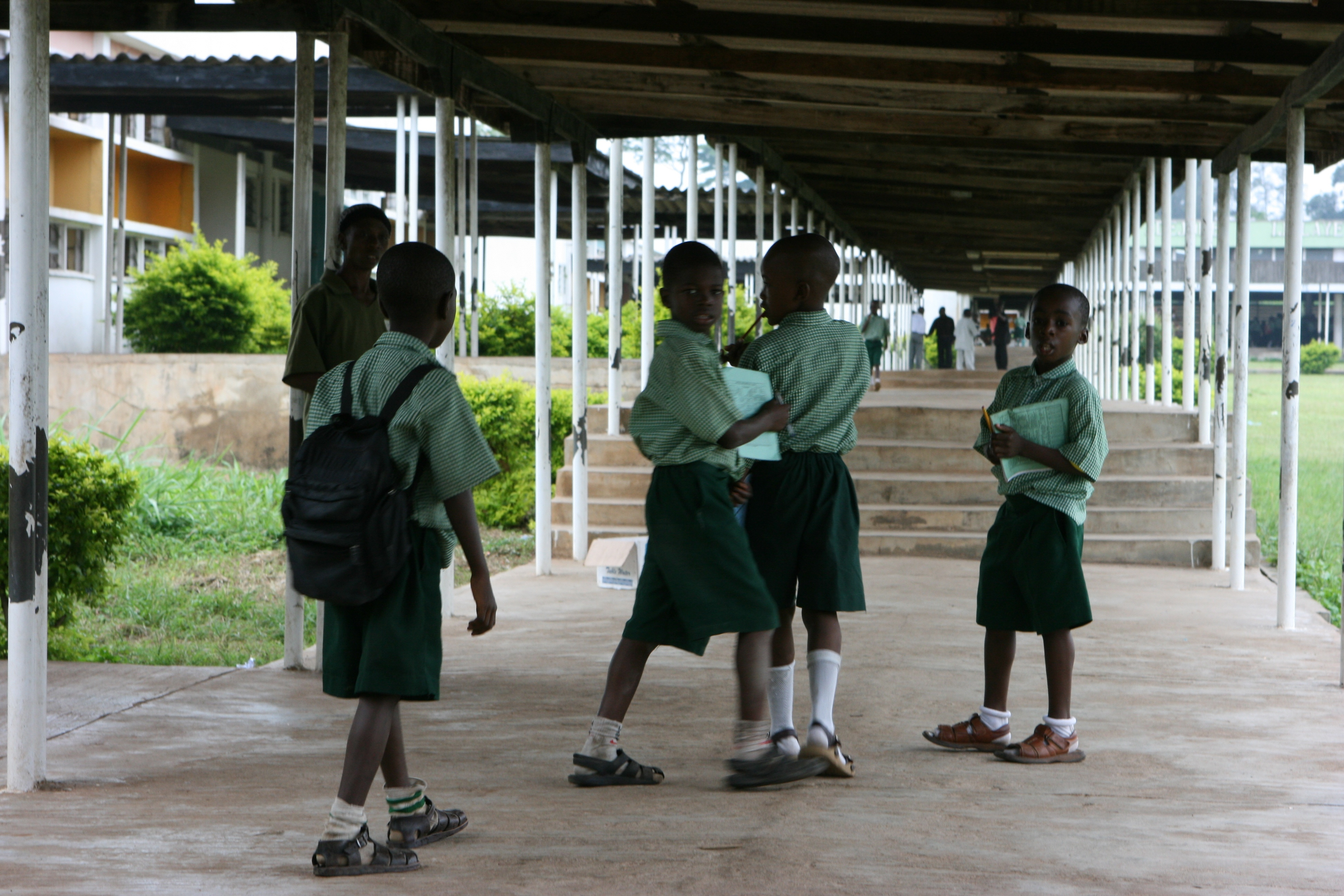 Children at school in Nigeria